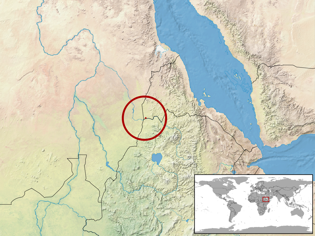 geographic distribution of Agama cornii Moody (1980) and Largen (1997) have suggested Agama cornii could be a synonym of Agama hartmanni Peters, 1869. Countries: IUCN: Eritrea; Ethiopia RDB (as Agama hartmanni): South Sudan, Eritrea